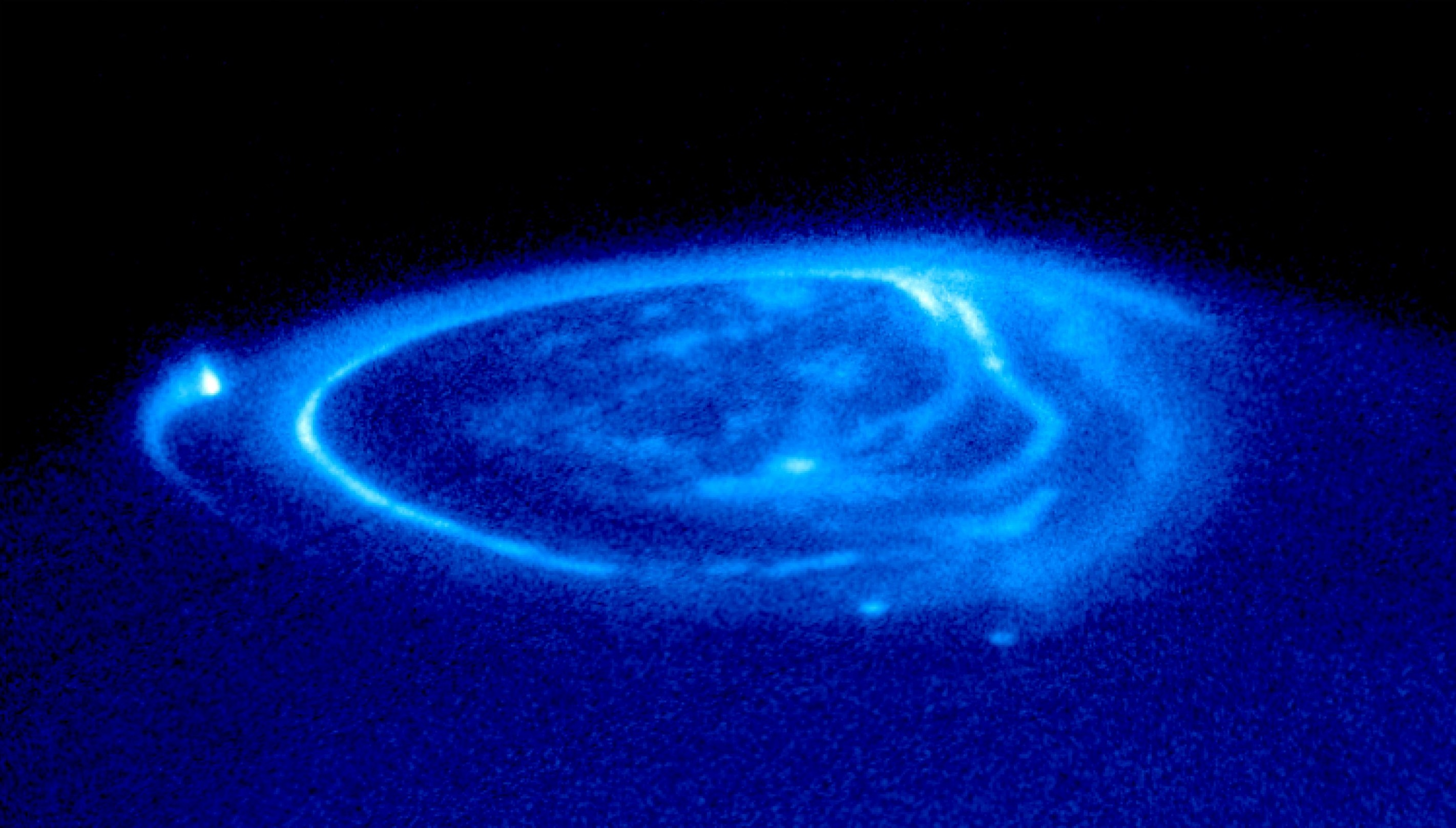 This is a spectacular NASA Hubble Space Telescope close-up view of an electric-blue aurora that is eerily glowing one half billion miles away on the giant planet Jupiter. Auroras are curtains of light resulting from high-energy electrons racing along the planet's magnetic field into the upper atmosphere. The electrons excite atmospheric gases, causing them to glow. The image shows the main oval of the aurora, which is centered on the magnetic north pole, plus more diffuse emissions inside the polar cap. Though the aurora resembles the same phenomenon that crowns Earth's polar regions, the Hubble image shows unique emissions from the magnetic "footprints" of three of Jupiter's largest moons. (These points are reached by following Jupiter's magnetic field from each satellite down to the planet). Auroral footprints can be seen in this image from Io (along the left hand limb), Ganymede (near the center), and Europa (just below and to the right of Ganymede's auroral footprint). These emissions, produced by electric currents generated by the satellites, flow along Jupiter's magnetic field, bouncing in and out of the upper atmosphere. They are unlike anything seen on Earth. This ultraviolet image of Jupiter was taken with the Hubble Space Telescope Imaging Spectrograph (STIS) on November 26, 1998. In this ultraviolet view, the aurora stands out clearly, but Jupiter's cloud structure is masked by haze. This image was taken in UV light at 140 nm.